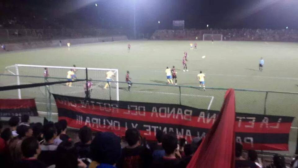 Giacomo Ratto Unan Managua vs Walter Ferretti